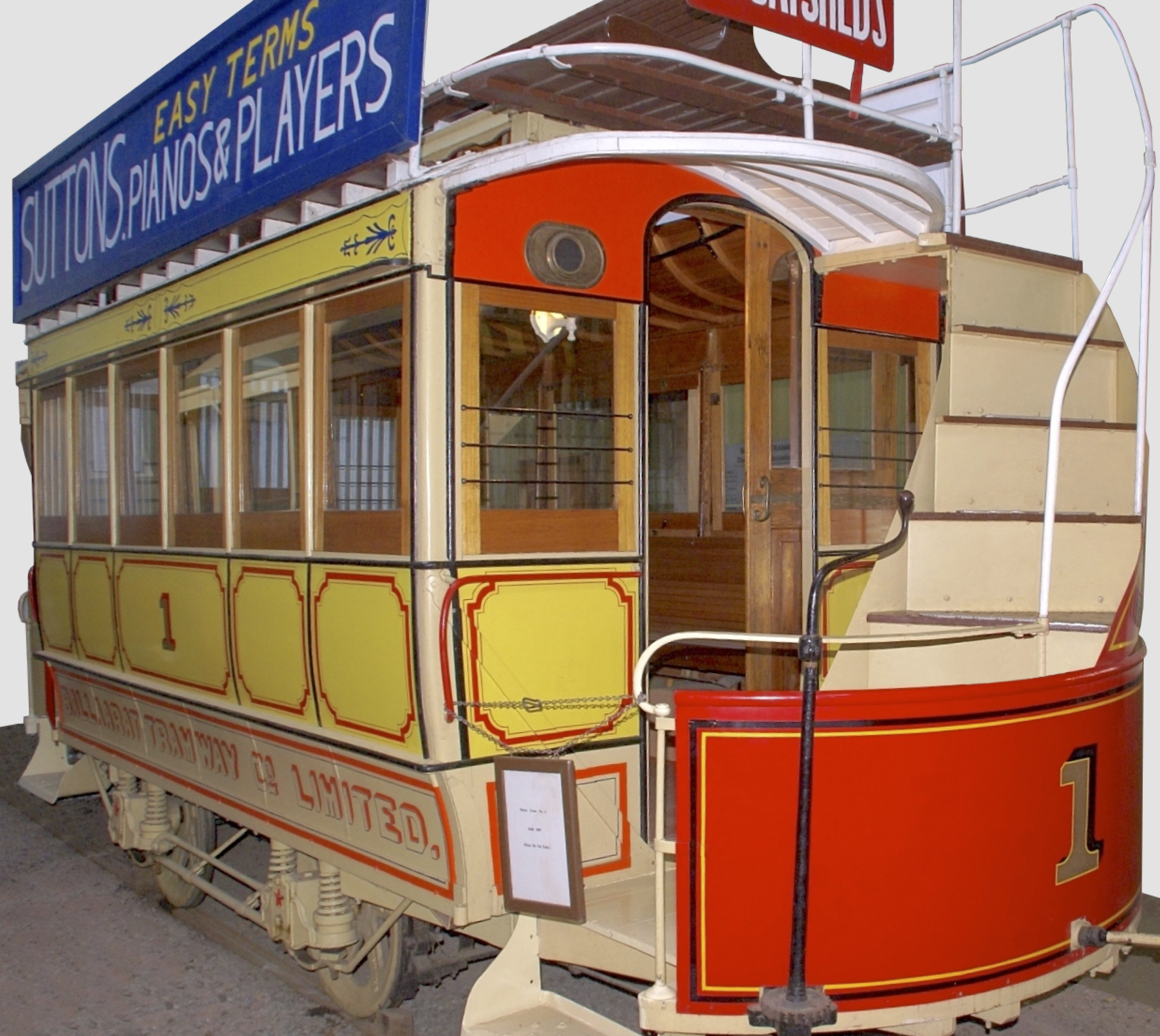 Built in 1887 by Duncan and Fraser for Ballaarat Tramway Co, horse drawn tram